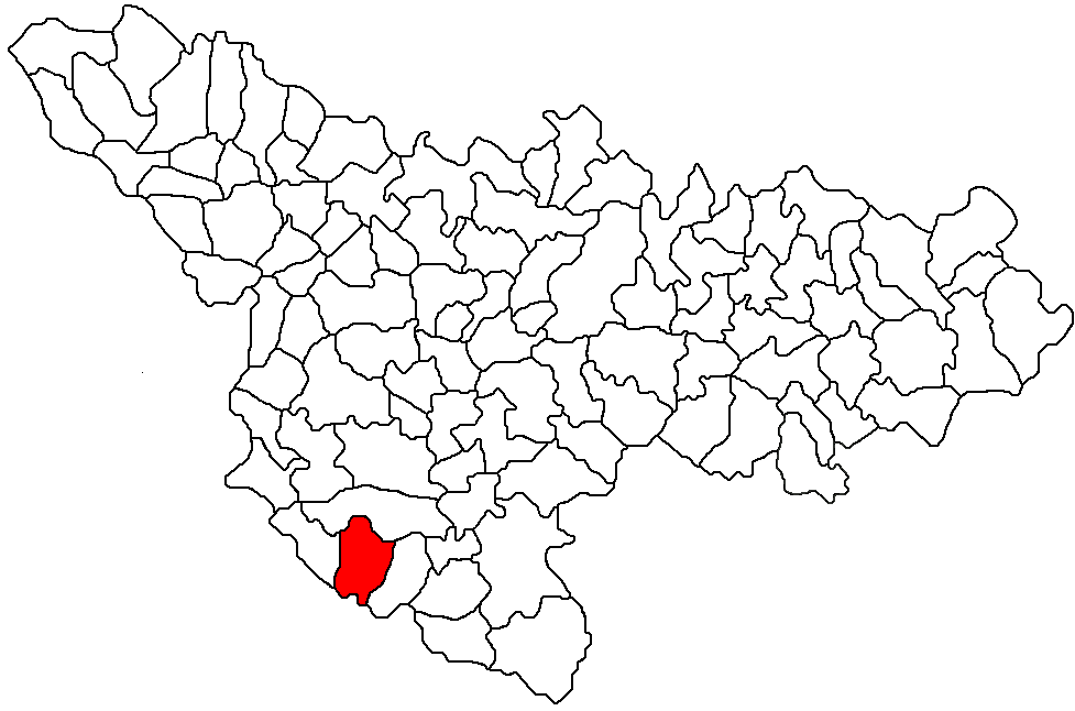 Locator map of the commune of Livezile, Satu Mare County, Rumania